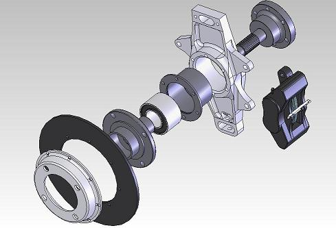 exploded view of a FSAE upright assembly